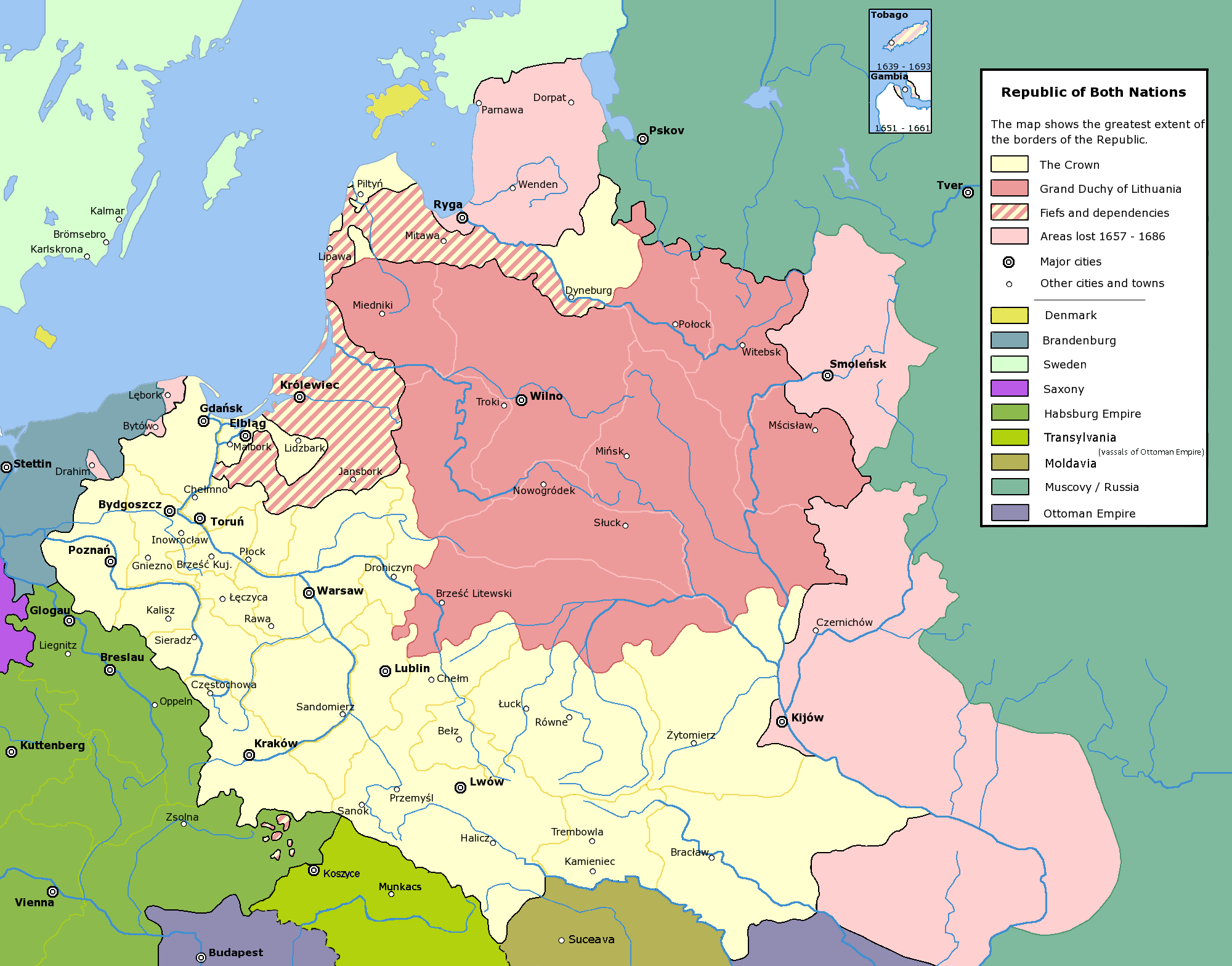 Commonwealth of Both Nations at the peak of its strength. The areas marked with light pink were lost to: Brandenburg in the treaties of Welawa and Bydgoszcz in 1657 Sweden and Brandenburg in the treaty of Oliwa in 1660 Muscovy in the Treaty of Andruszów in 1667 Muscovy in the Grzymułtowski's Peace Treaty of 1686